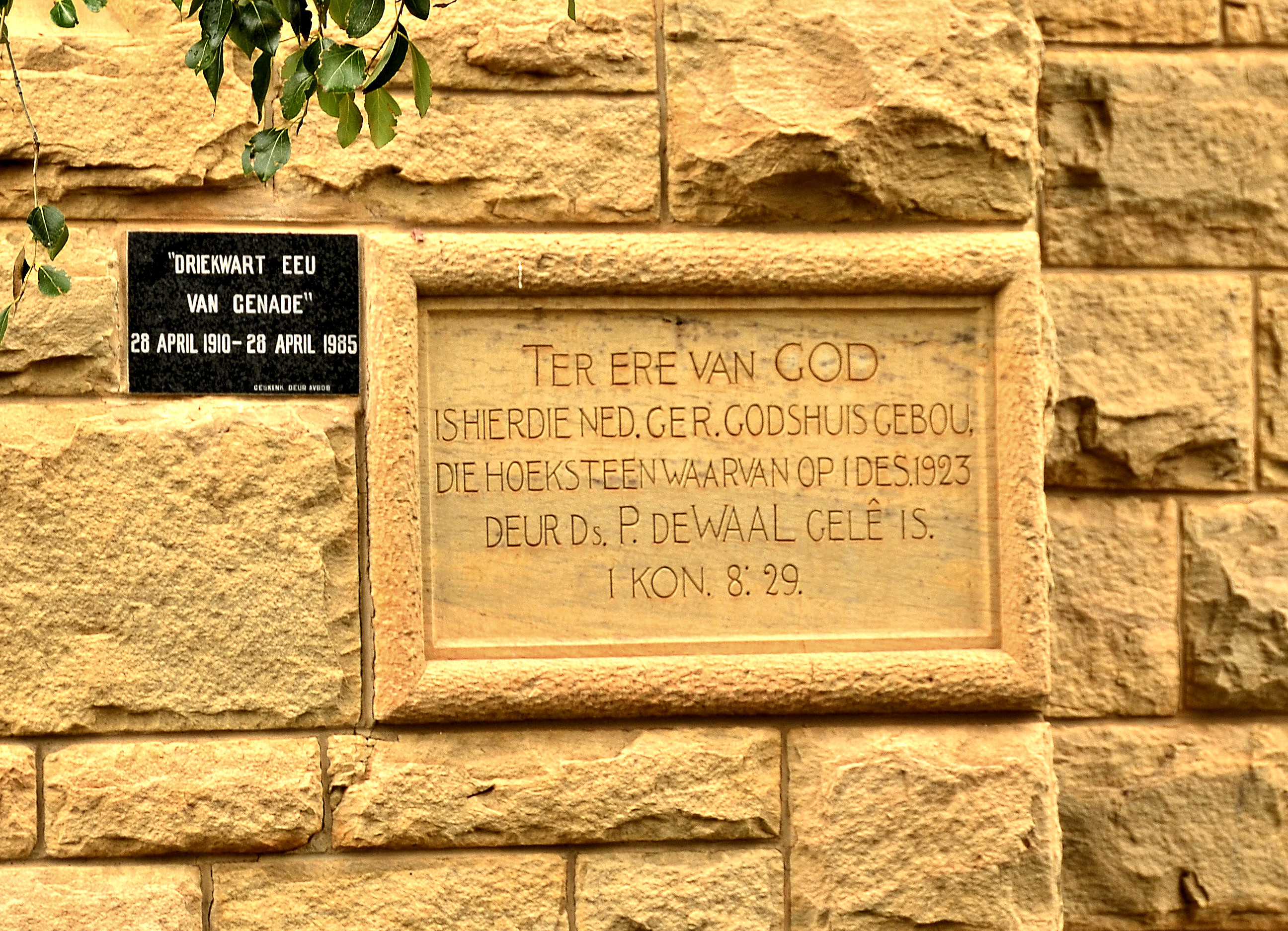 Corner stone of the Dutch Reformed Church in Reddersburg, South Africa